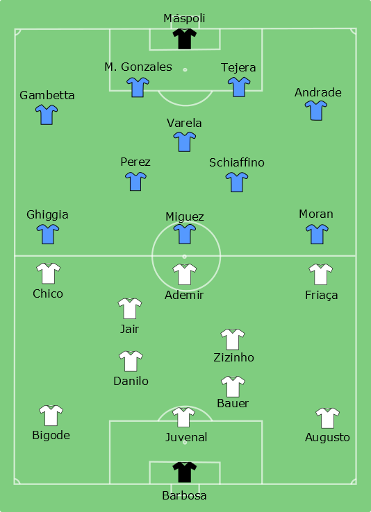 Players on World Cup 1950 final's kick off (Uruguay-Brazil)